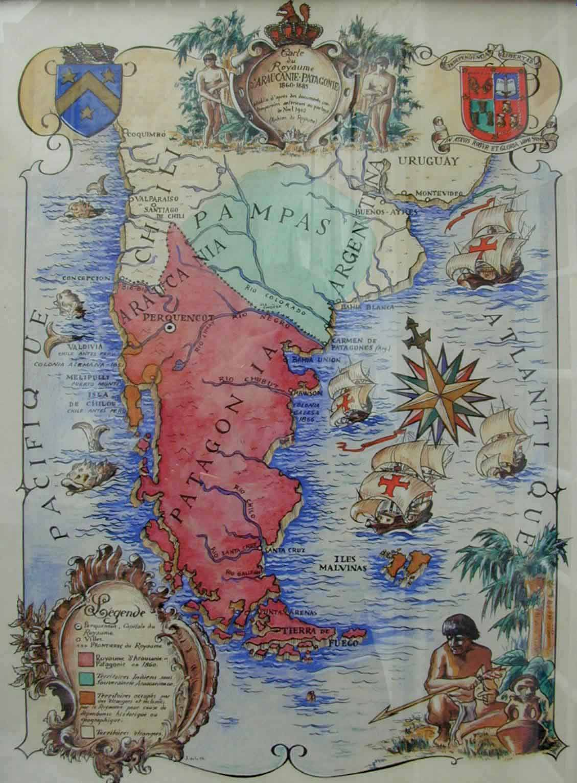 Map of the Kingdom of Araucania